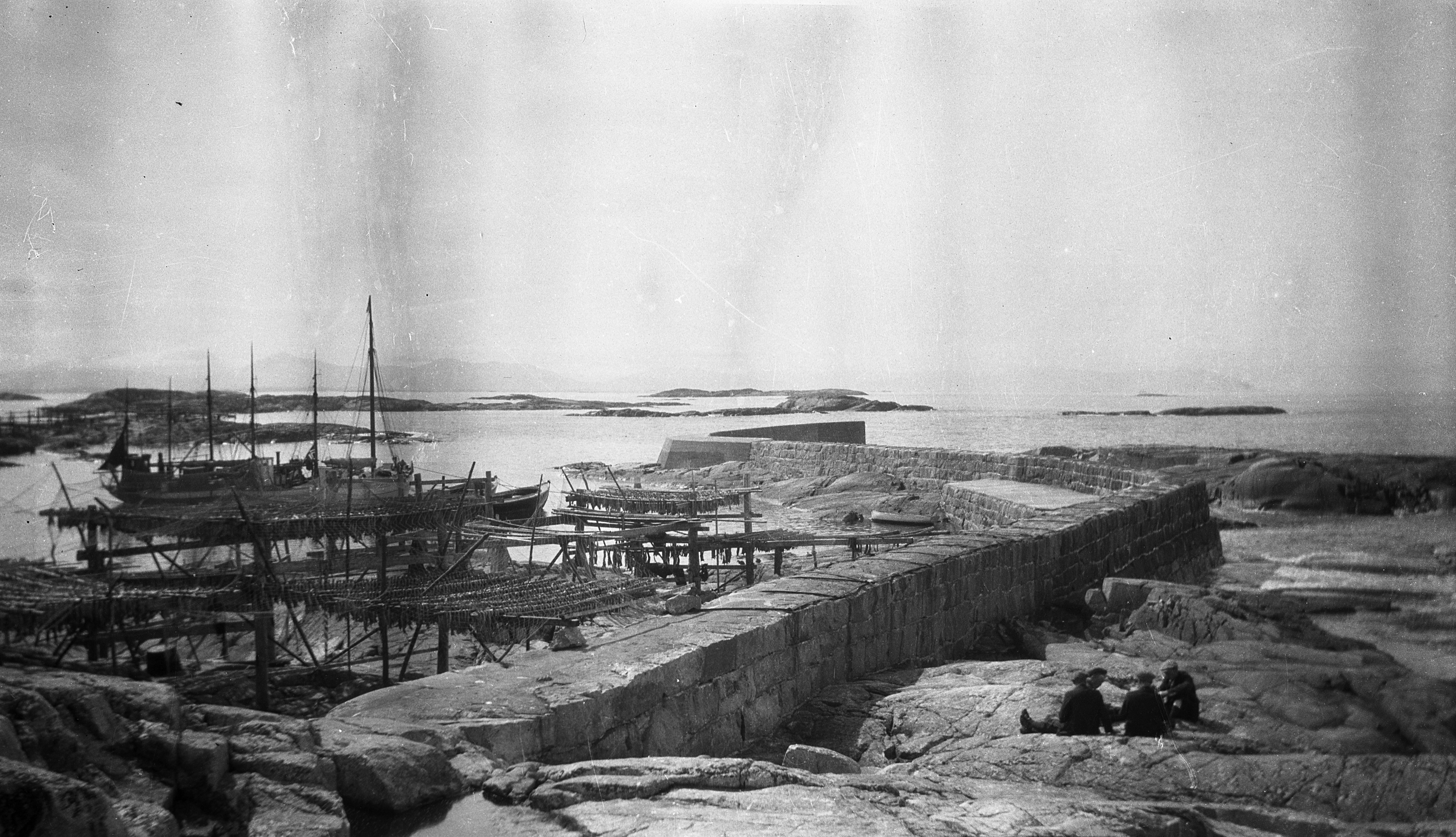 Grip mole, 1923 / Grip gamle og nye molo, "promenaden" Identifier: SFFf-100585.274959 Photographer: Kristian Berge. Medium: Cellulose nitrate negative. Extent: 7 x 12 cm. Original caption (from Berge's negative album): Grip gamle og nye molo, "promenaden".